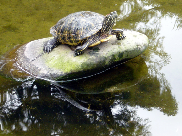 A turtle in a pond. Picture taken in Hakone Garden in Saratoga, C.